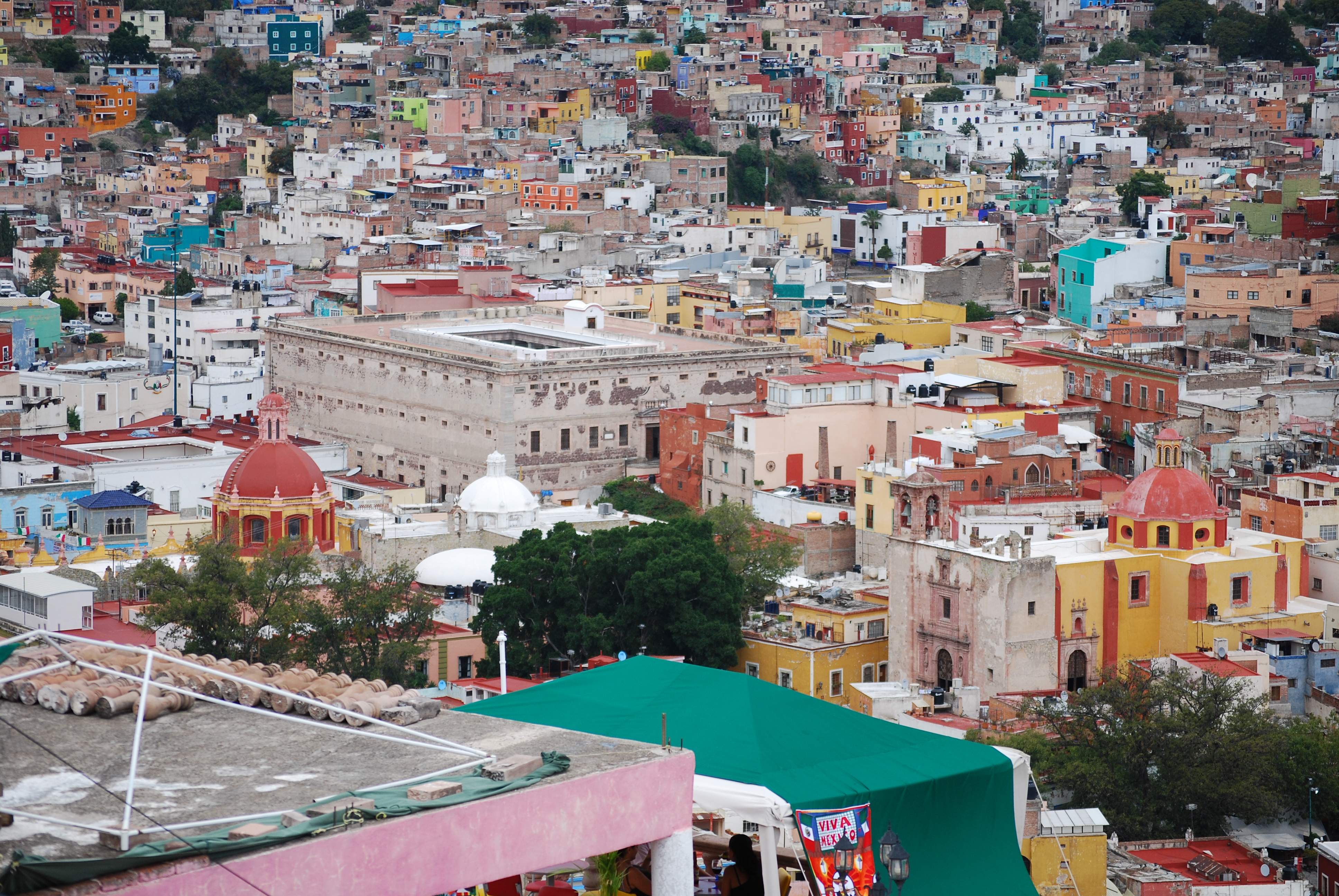 Alhondiga de Granaditas from the Pipila monument in Guanajuato, Mexico